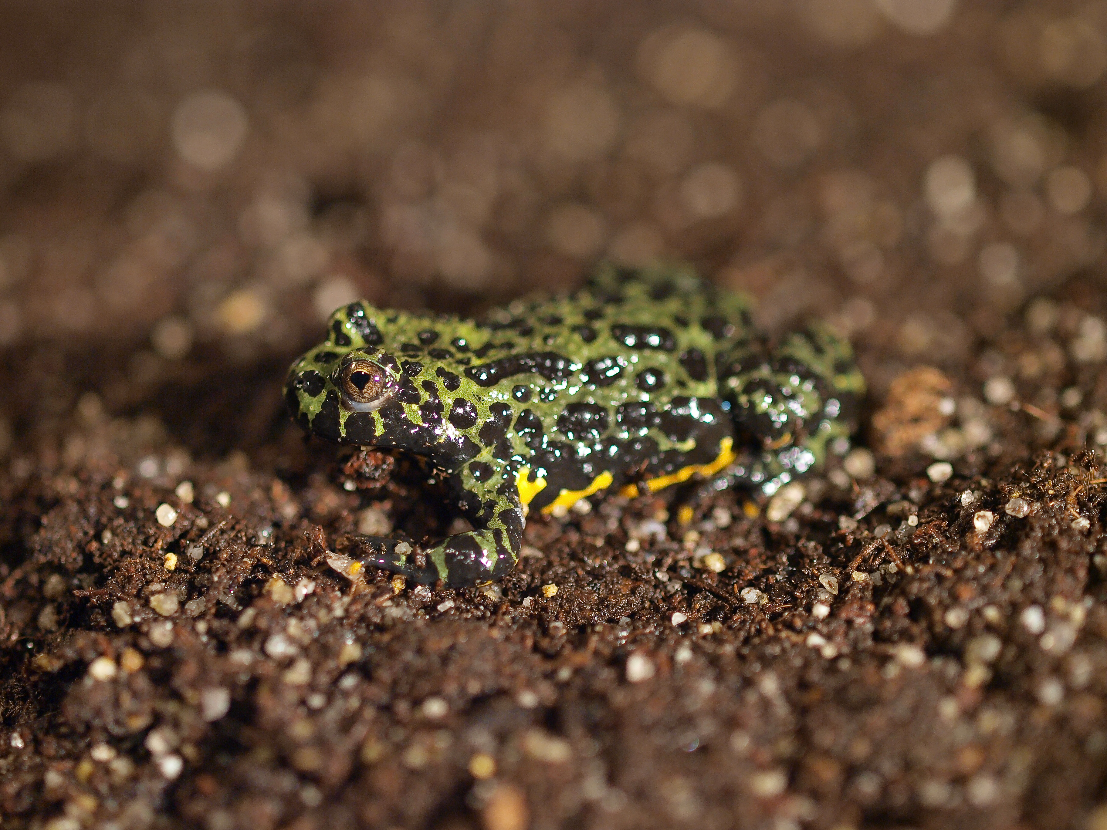 Adult female of Bombina orientalis